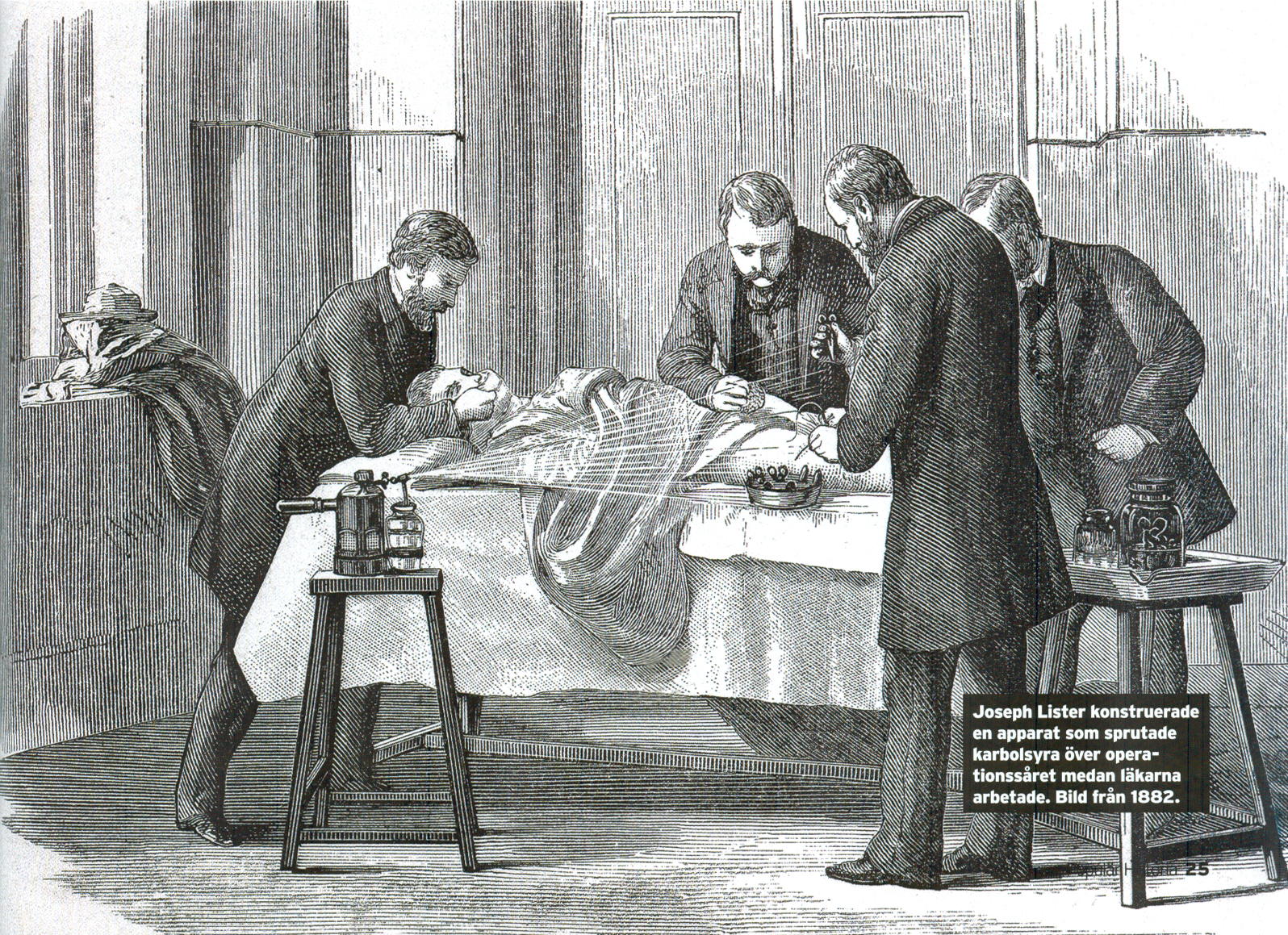 Joseph lister spraying phenol over the wound while the doctors were performing an operation.